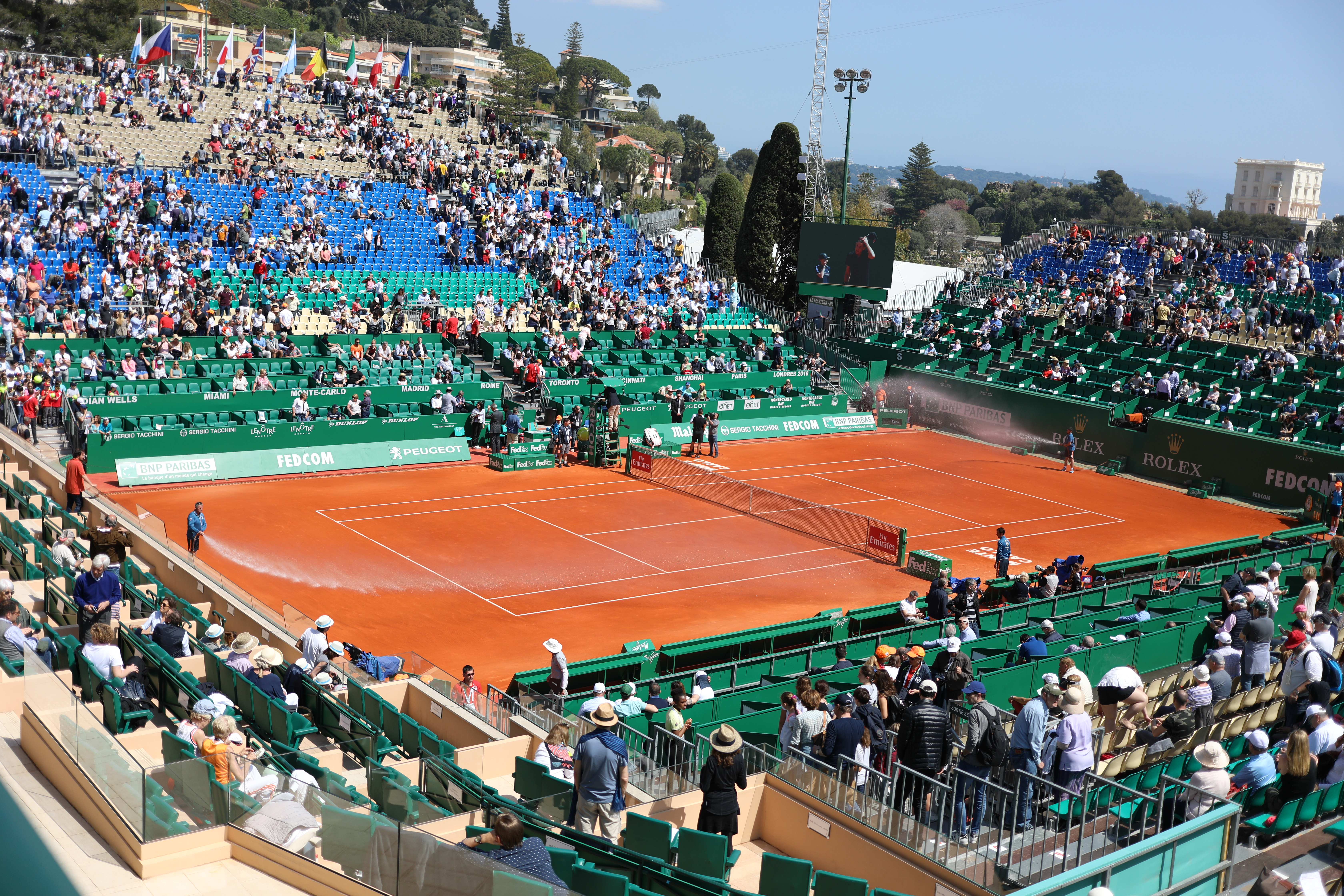 2018 Monte-Carlo Masters